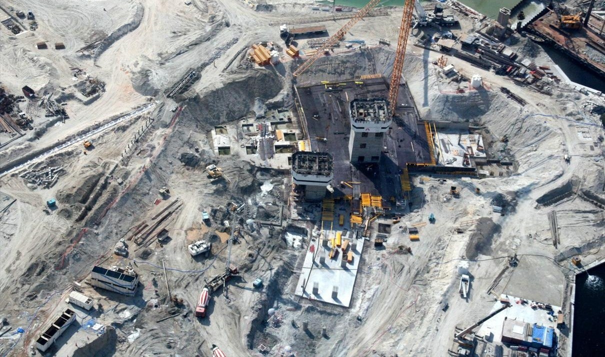 This is a photo showing the construction of D1 Tower, located in Culture Village along Dubai Creek in Dubai, United Arab Emirates, on 18 October 2007. This photo was taken from a helicopter ride courtesy of Nakheel.